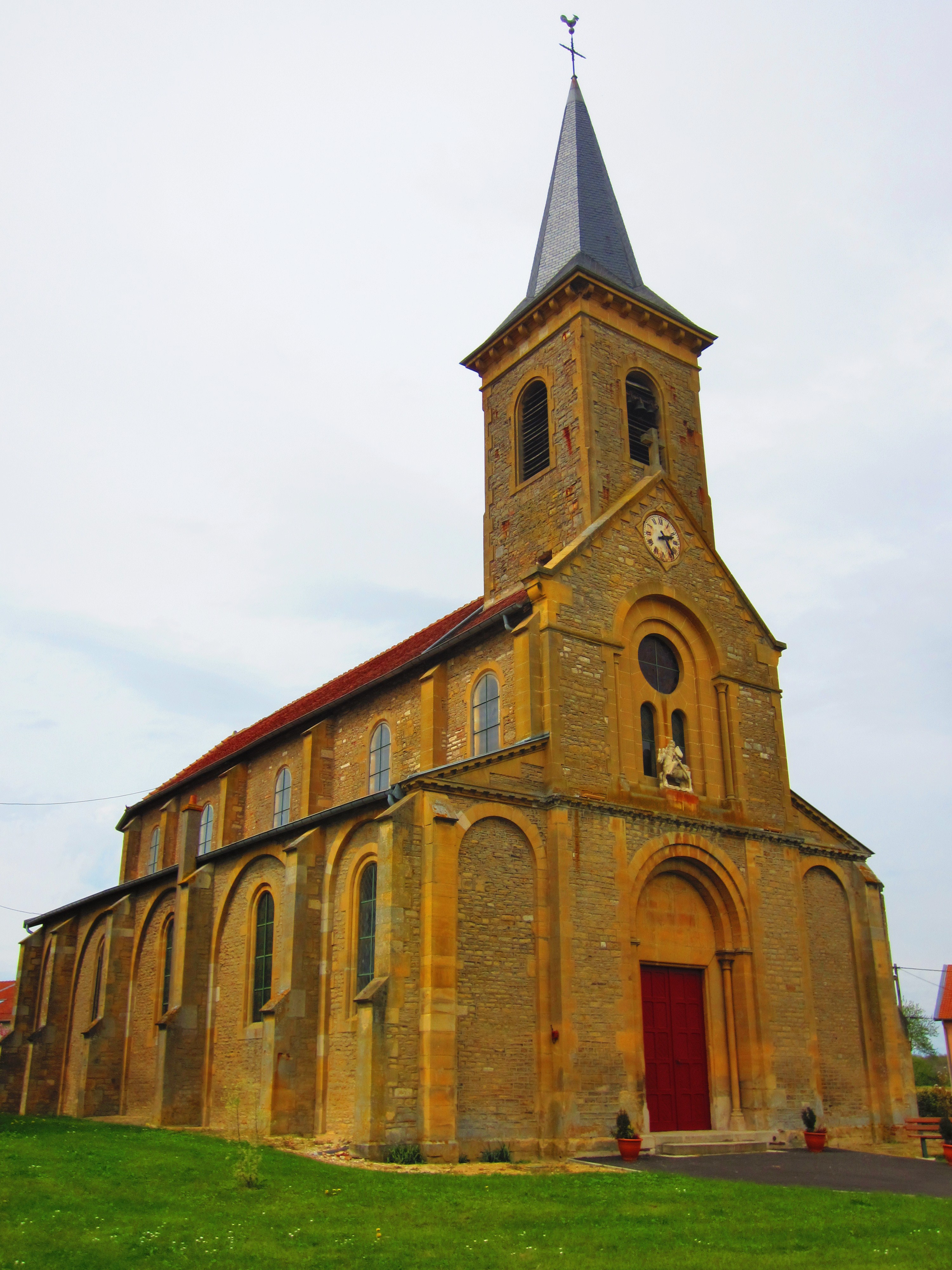 Braquis church